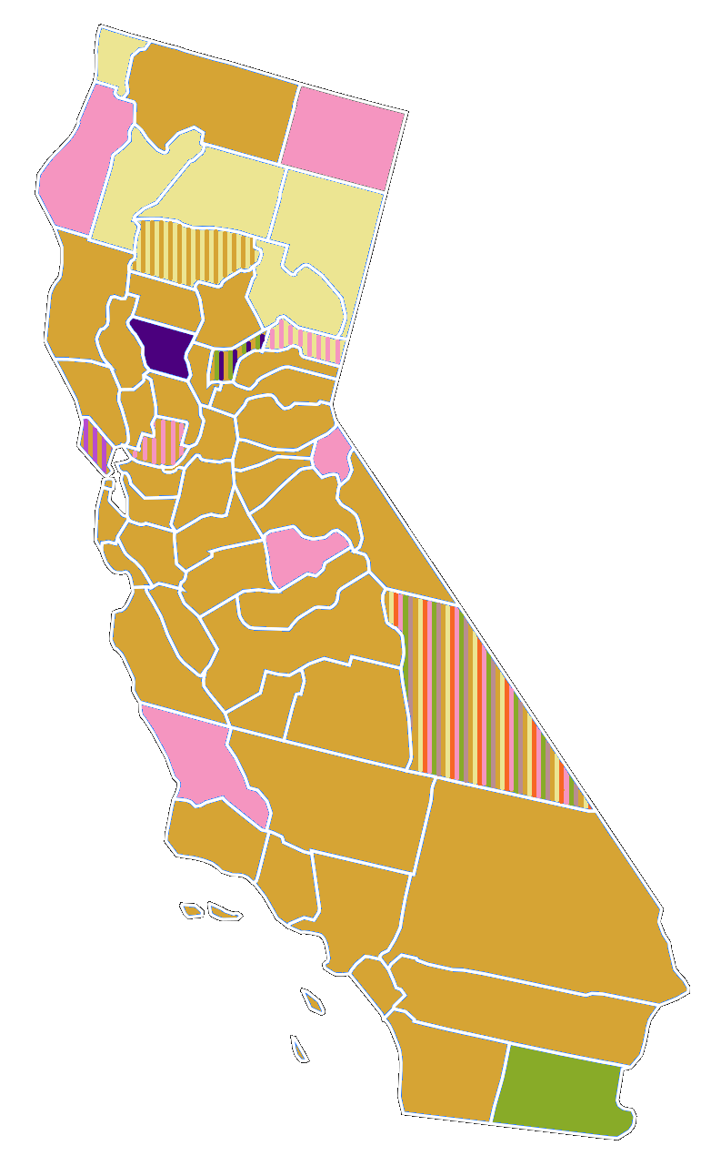 Results by county of the 2020 California Libertarian Party presidential preference primary